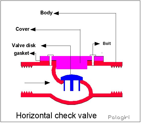 horizontal check valve